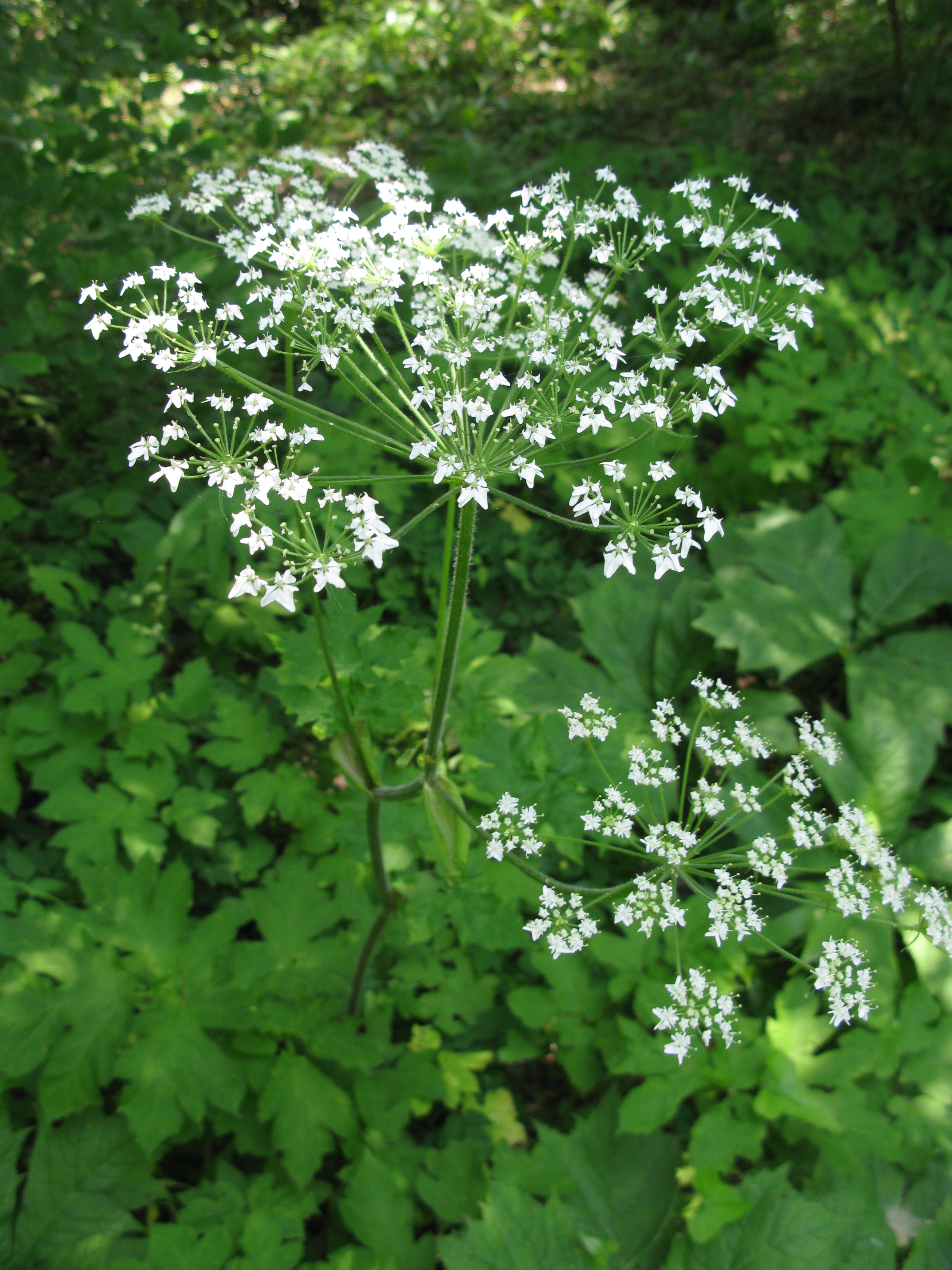 Heracleum sphondylium var. nipponicum, Jindai Botanical Garden, Tokyo, Japan